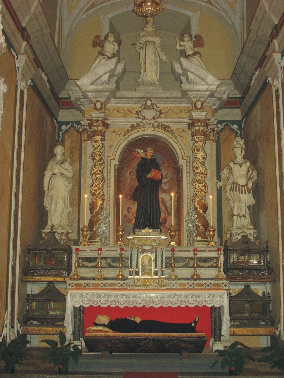 Chapel of Blessed Agostino Novello in the Duomo Termini Imerese